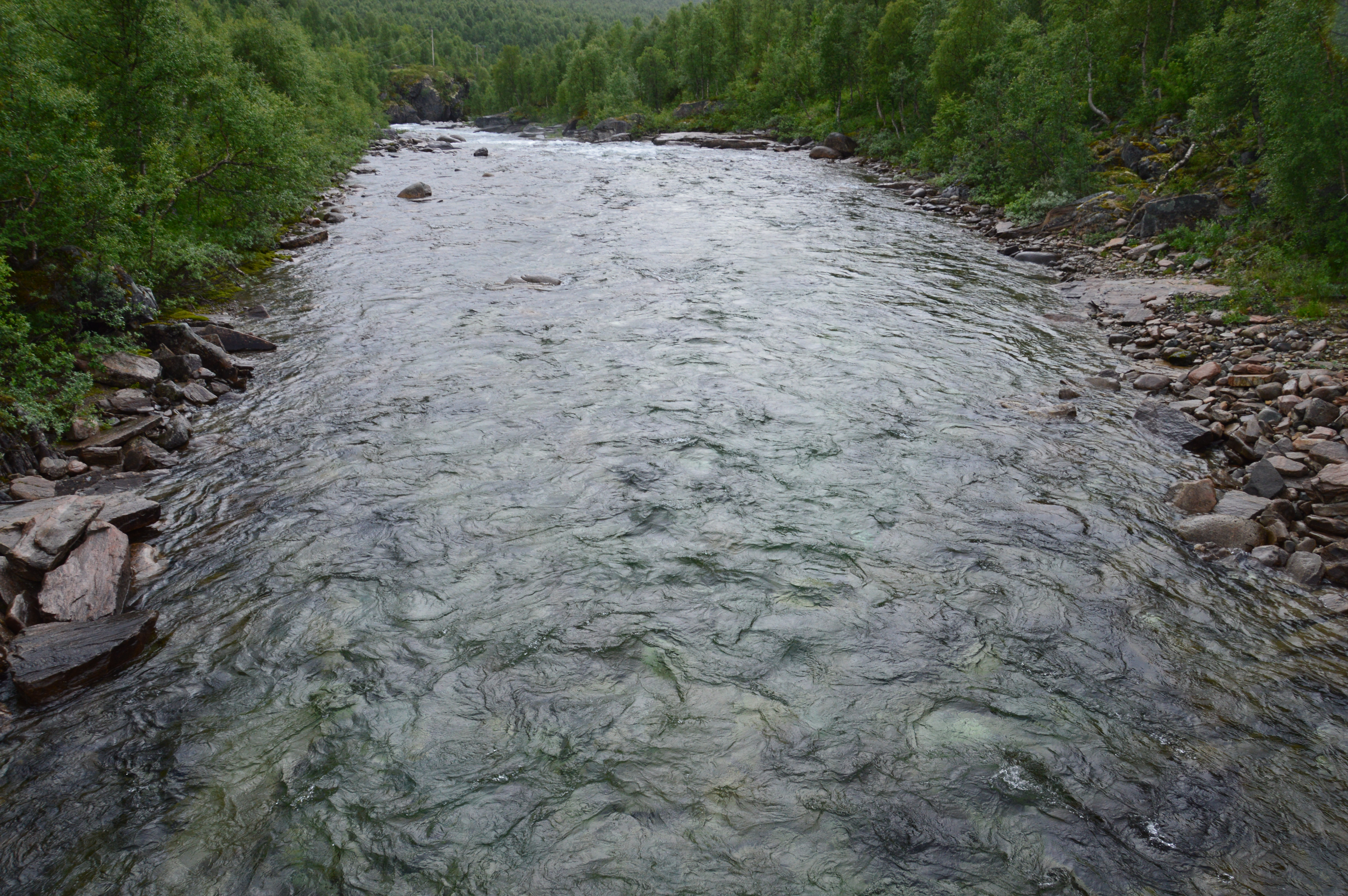 Gubbeltåga